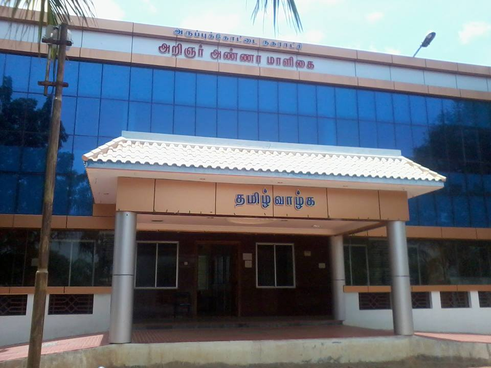 aruppukkottai muncipality office